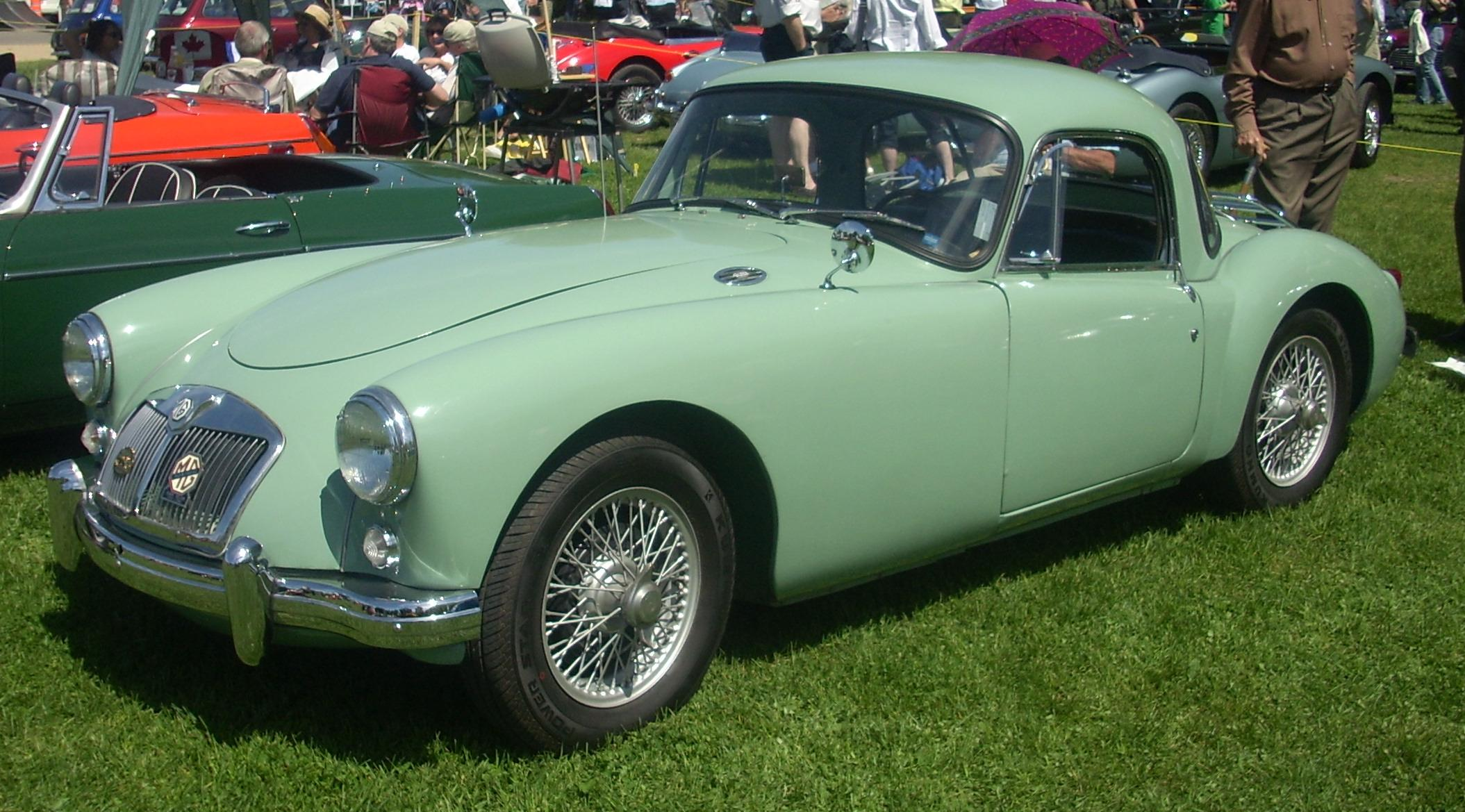 1957 MG MGA photographed at the 2008 Hudson British Car Show.